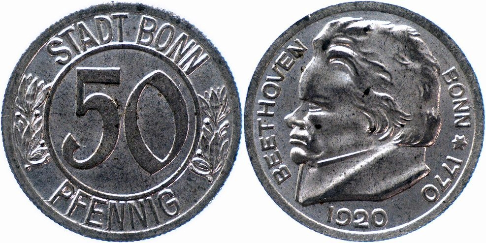 German local "emergency money", Bonn, 1920